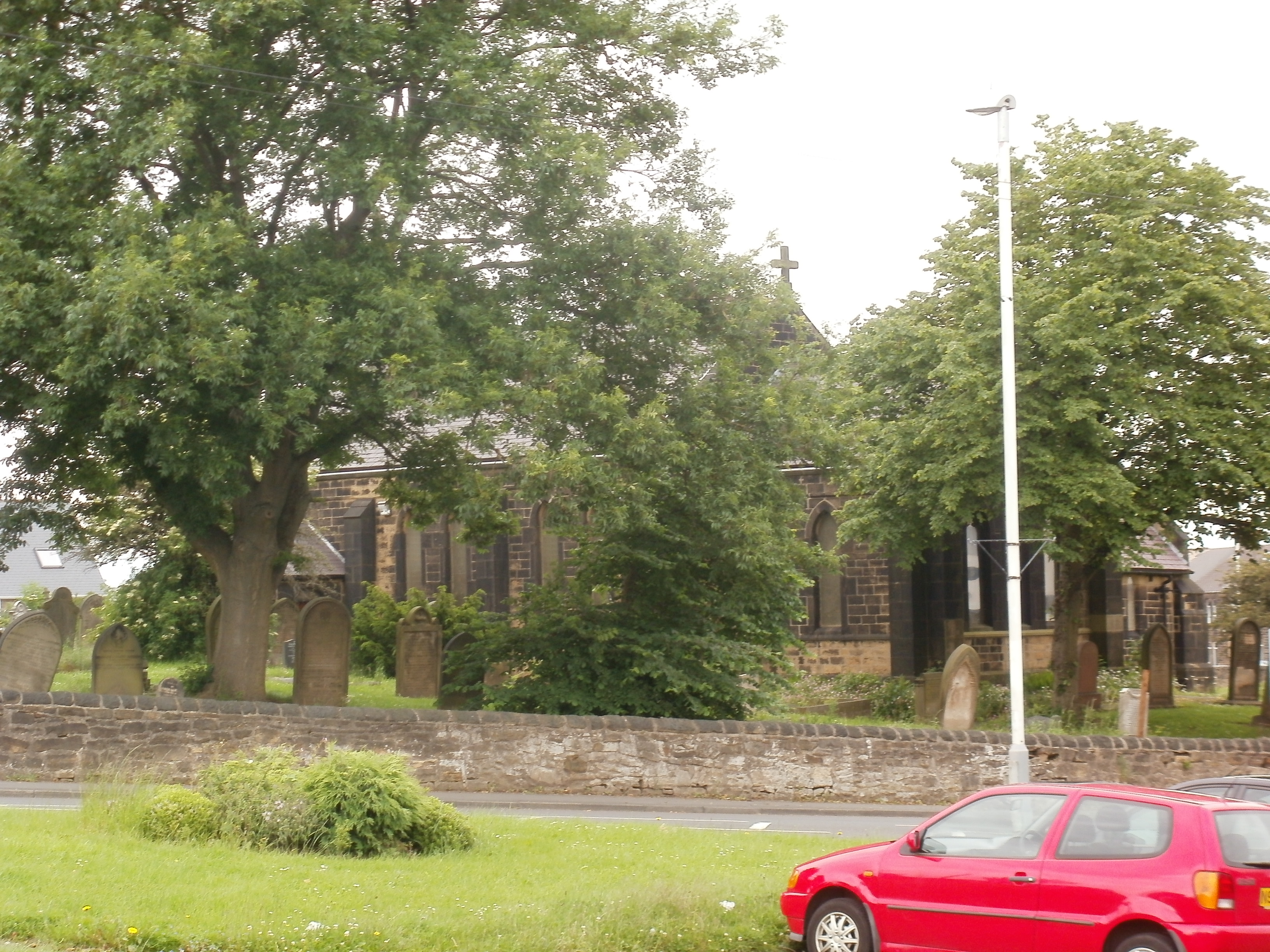 St Alban's parish church, Windy Nook, Tyne and Wear, seen from the southeast